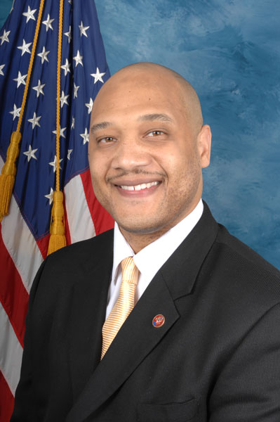 Official portrait of André Carson, United States Representative for Indiana's 7th congressional district.